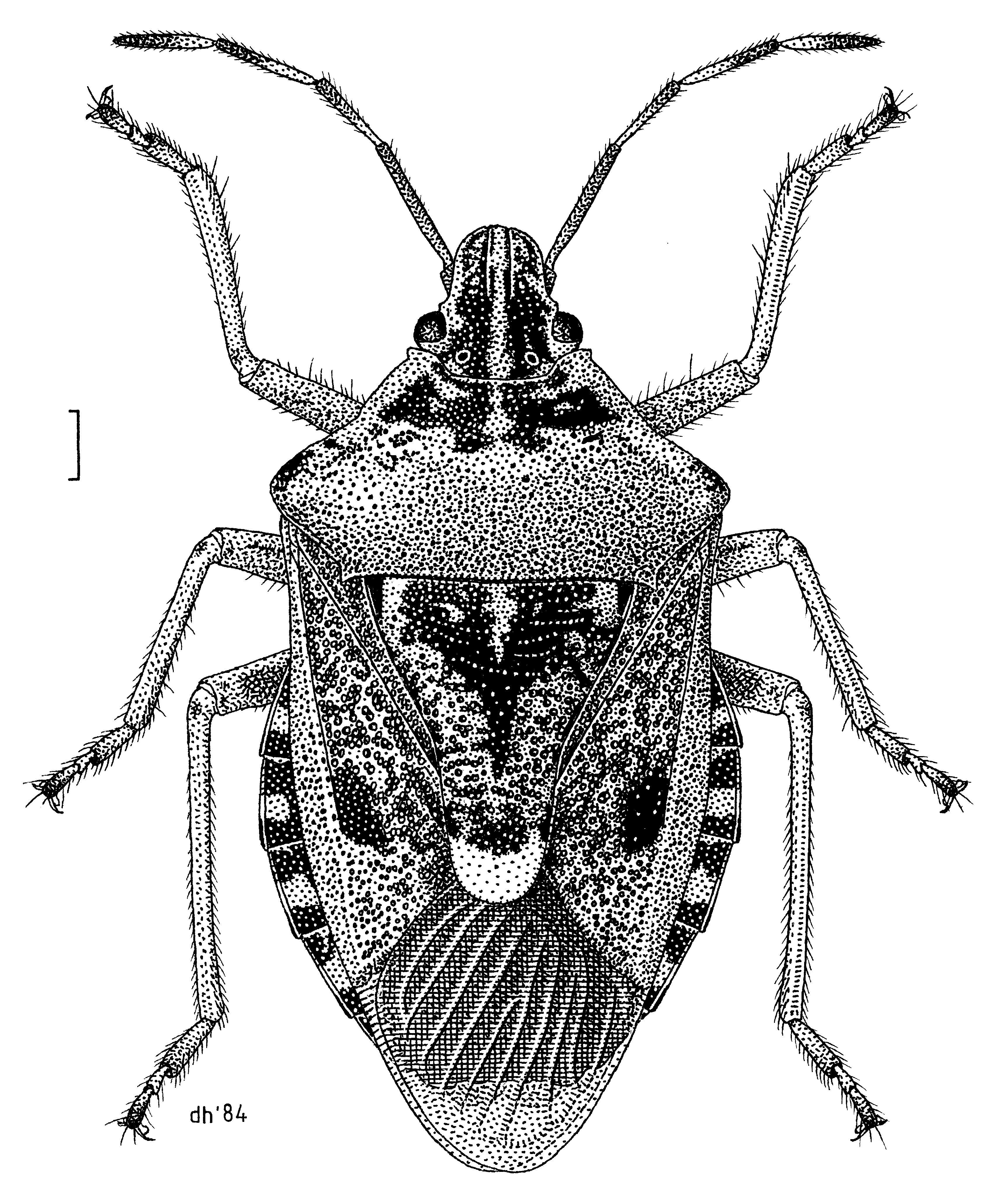 (Hemiptera: Pentatomidae) Cermatulus nasalis turbotti illustrated by Des Helmore.